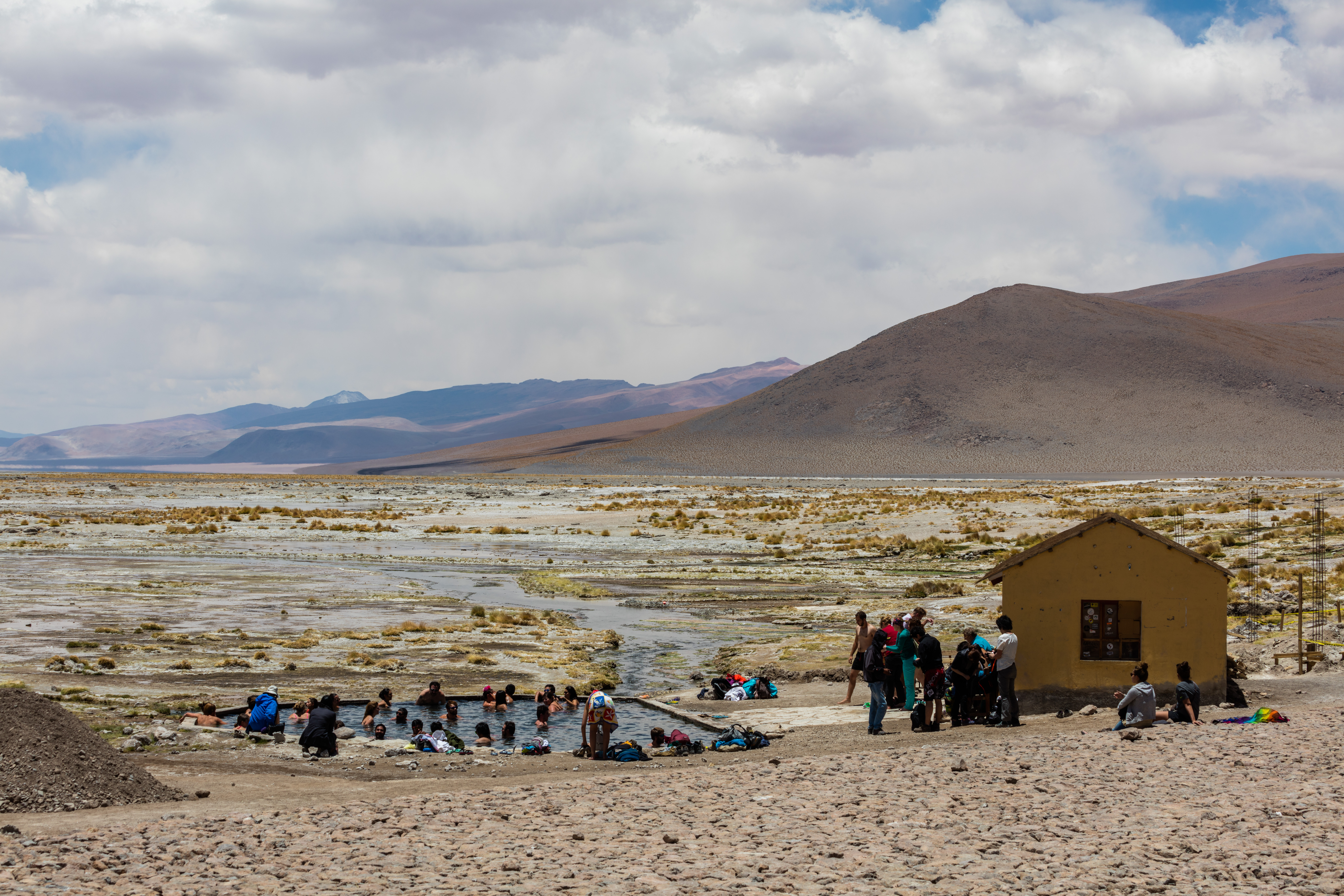 Thermal baths, Laguna Salada, Bolivia